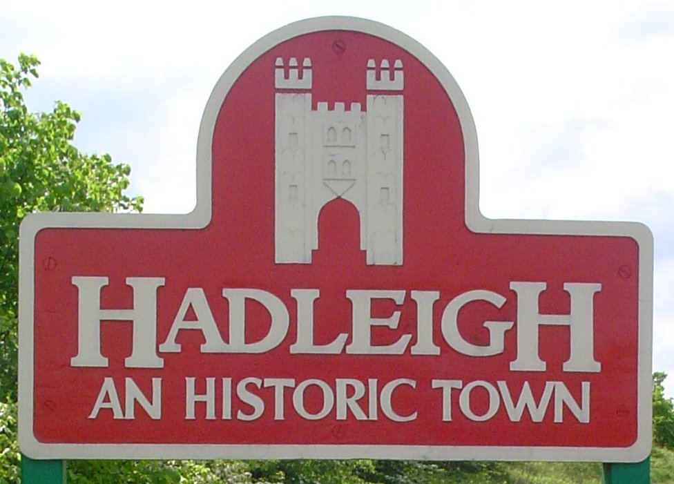 Signpost in Hadleigh,Suffolk